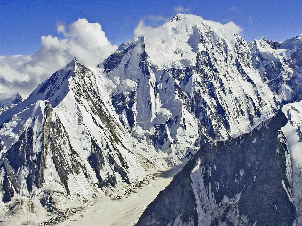 Laila Peak (Haramosh Valley) photographed from Camp II (18,300')on Spantik